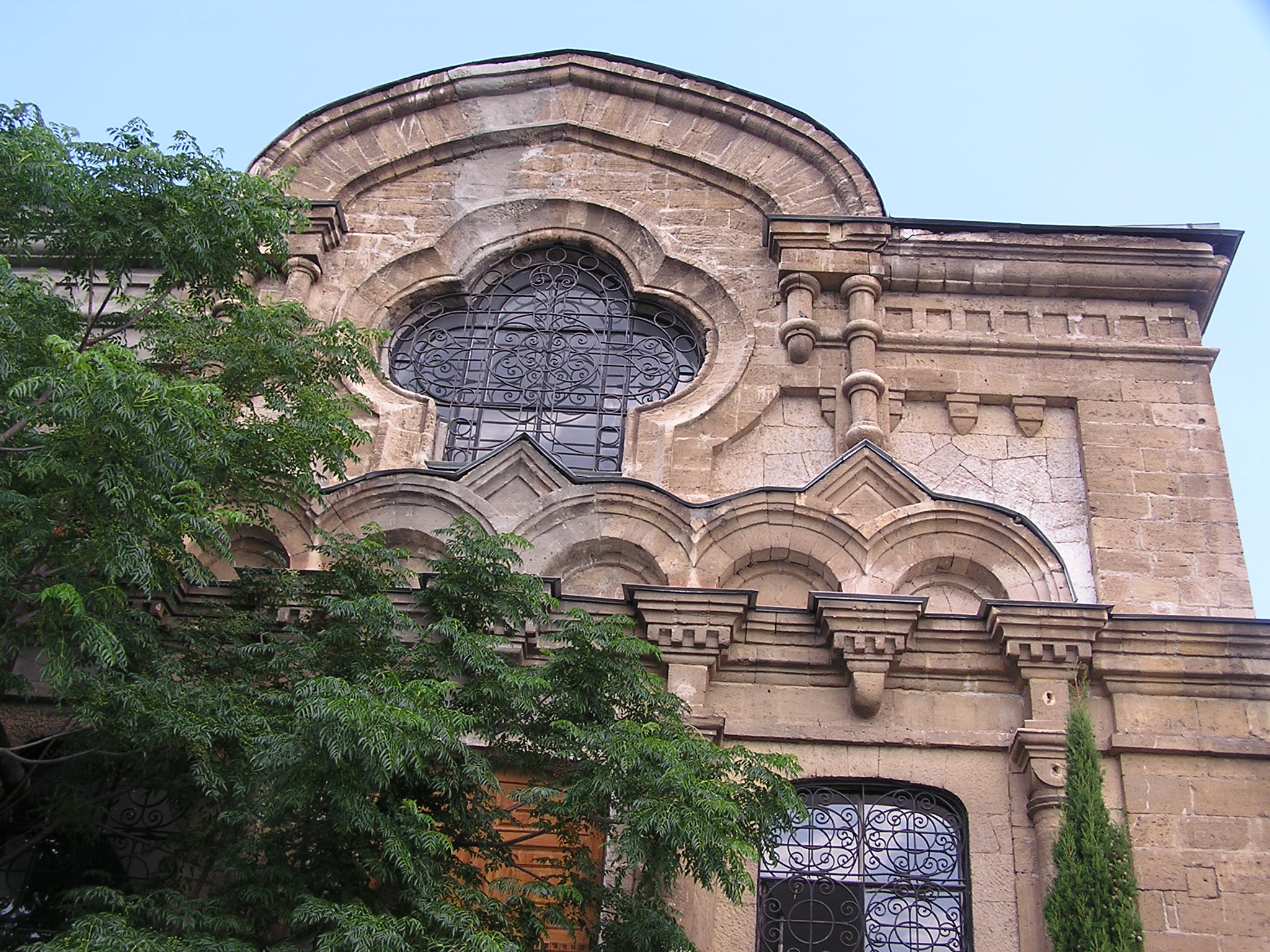 Church of Archangel Michael in Alupka